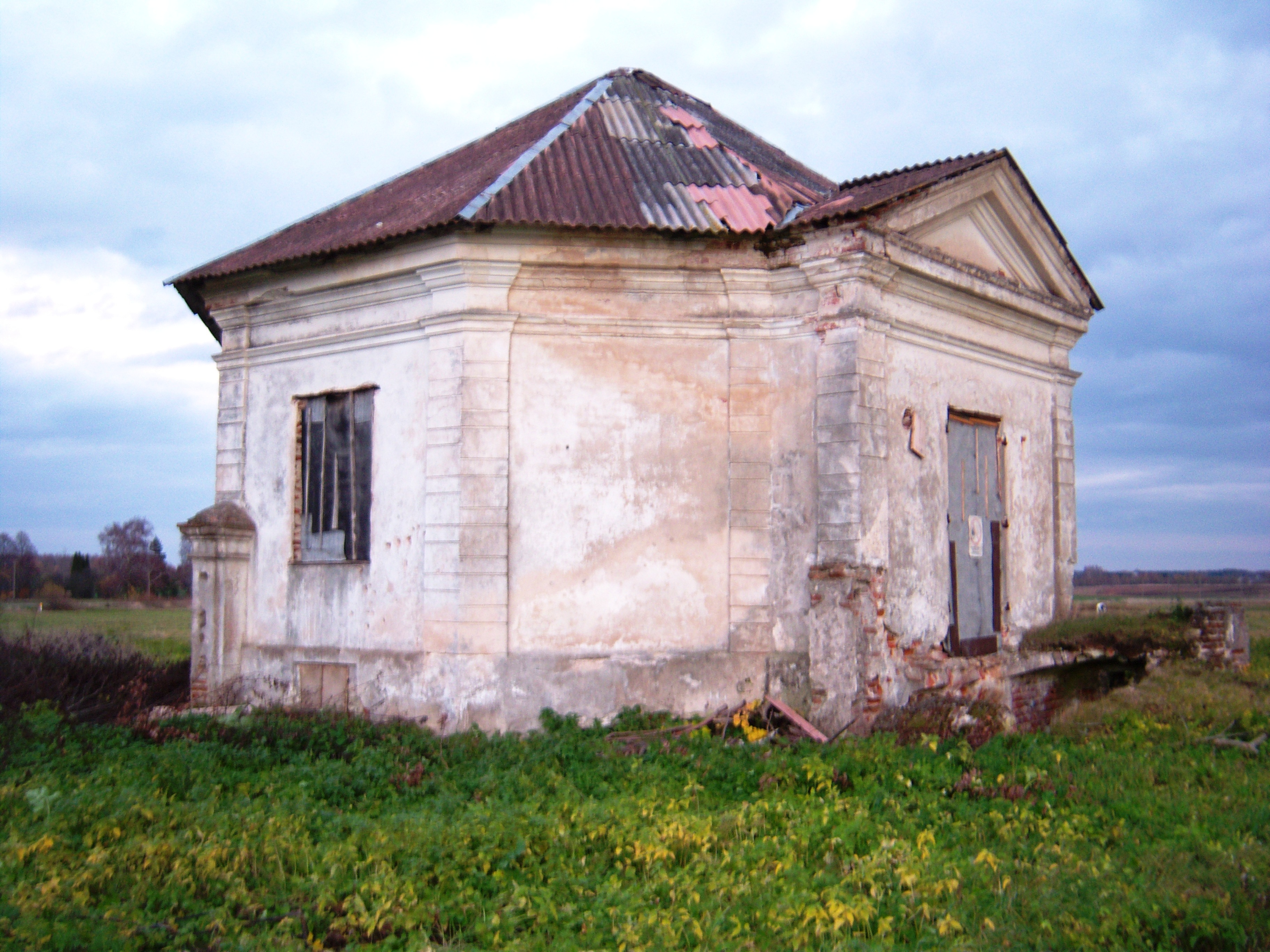 Former manor in Janapolis, barn (Baroque style), Anykščiai District, Lithuania